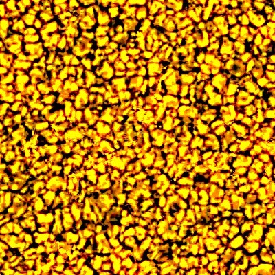 Granules-like structure of surface of sun (visible light). Size of image: around 35'000km x 35'000km